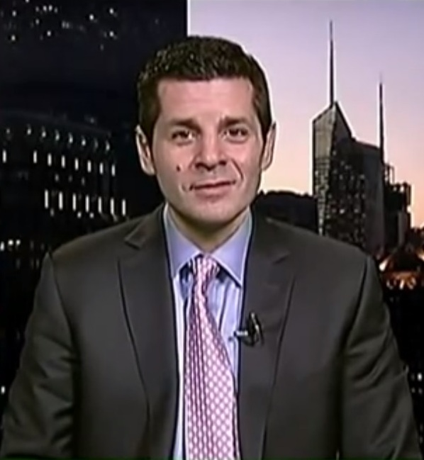 American political comedian Dean Obeidallah discusses the Conservative Political Action Conference on RT America.